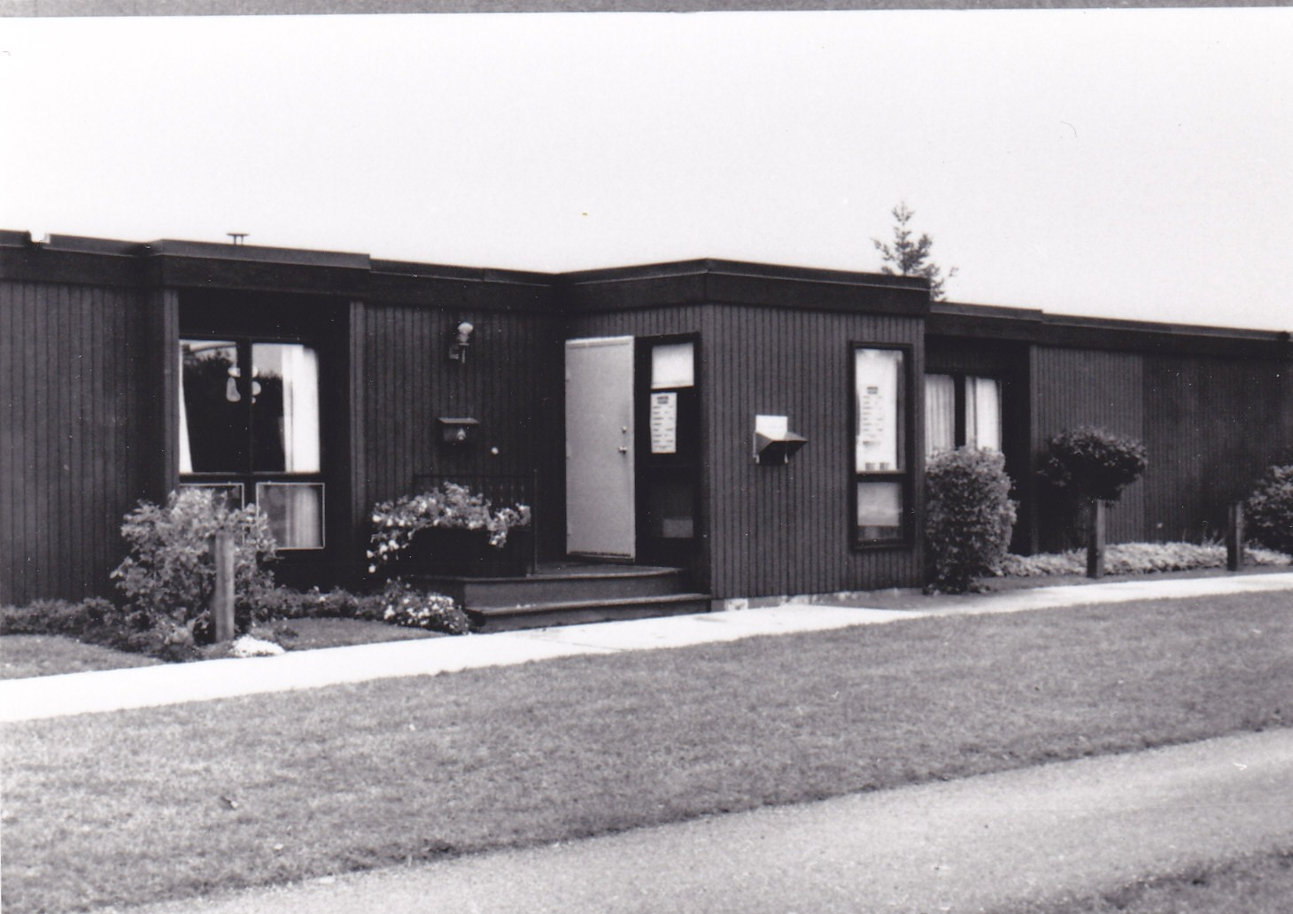 Photographer unknown, ca. 1972, Repository: Eden Prairie Historical Society, Digitized: November 9, 2011 by Beth Goodrich